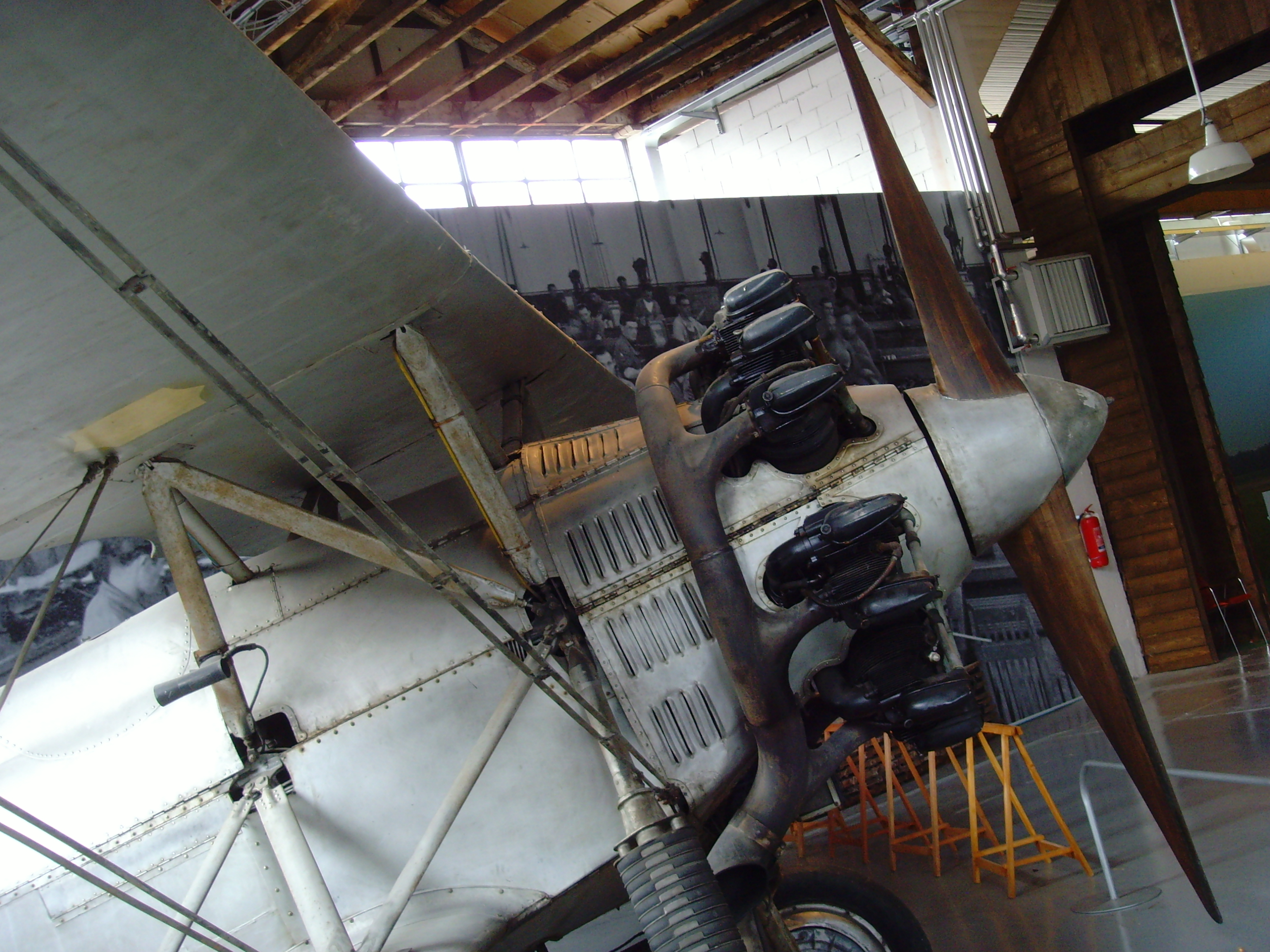 Detail of fuselage fore part of Caproni Ca.113 displayed in Volandia museum.